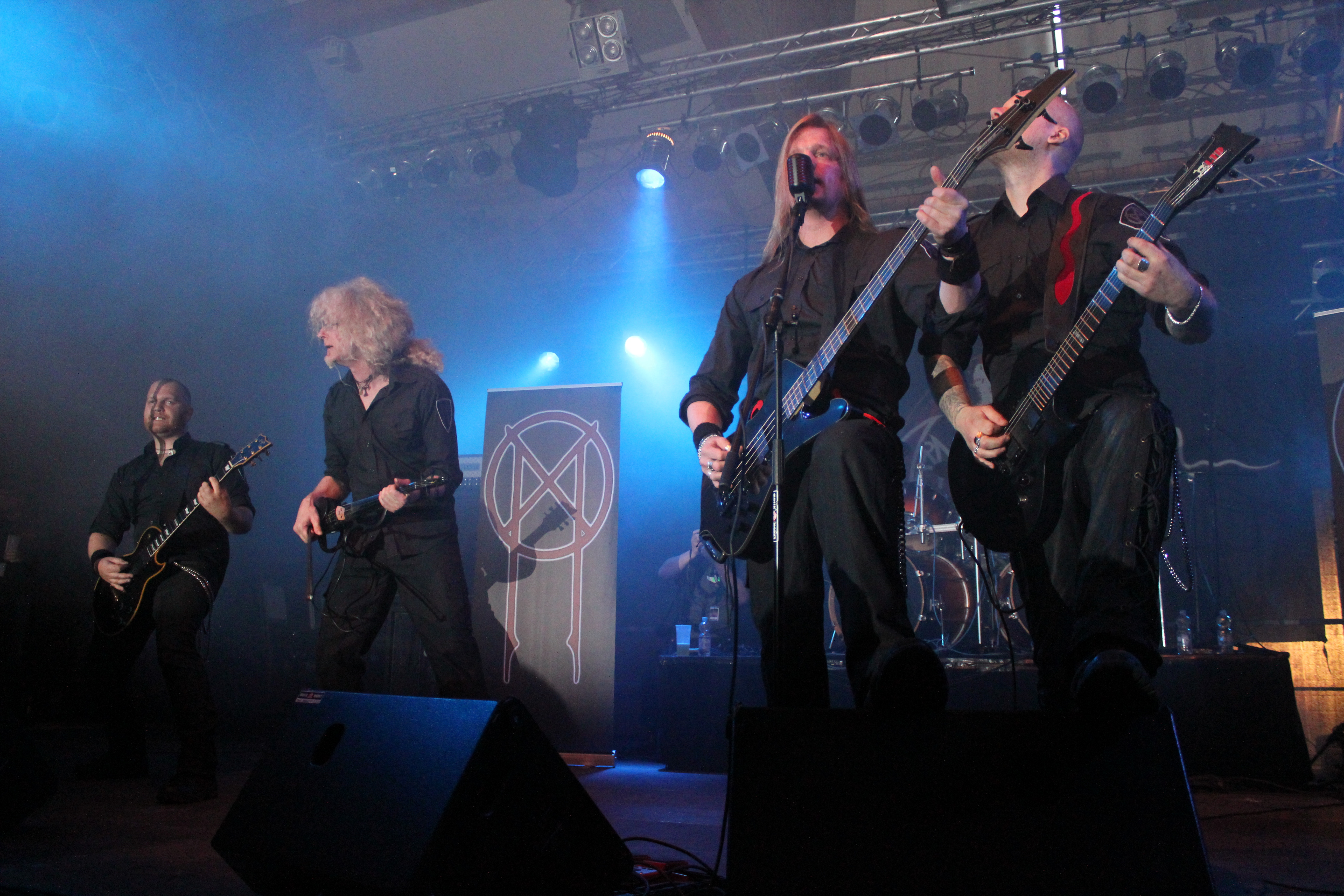 "Månegarm" live at the Ragnarök-Festival 2011